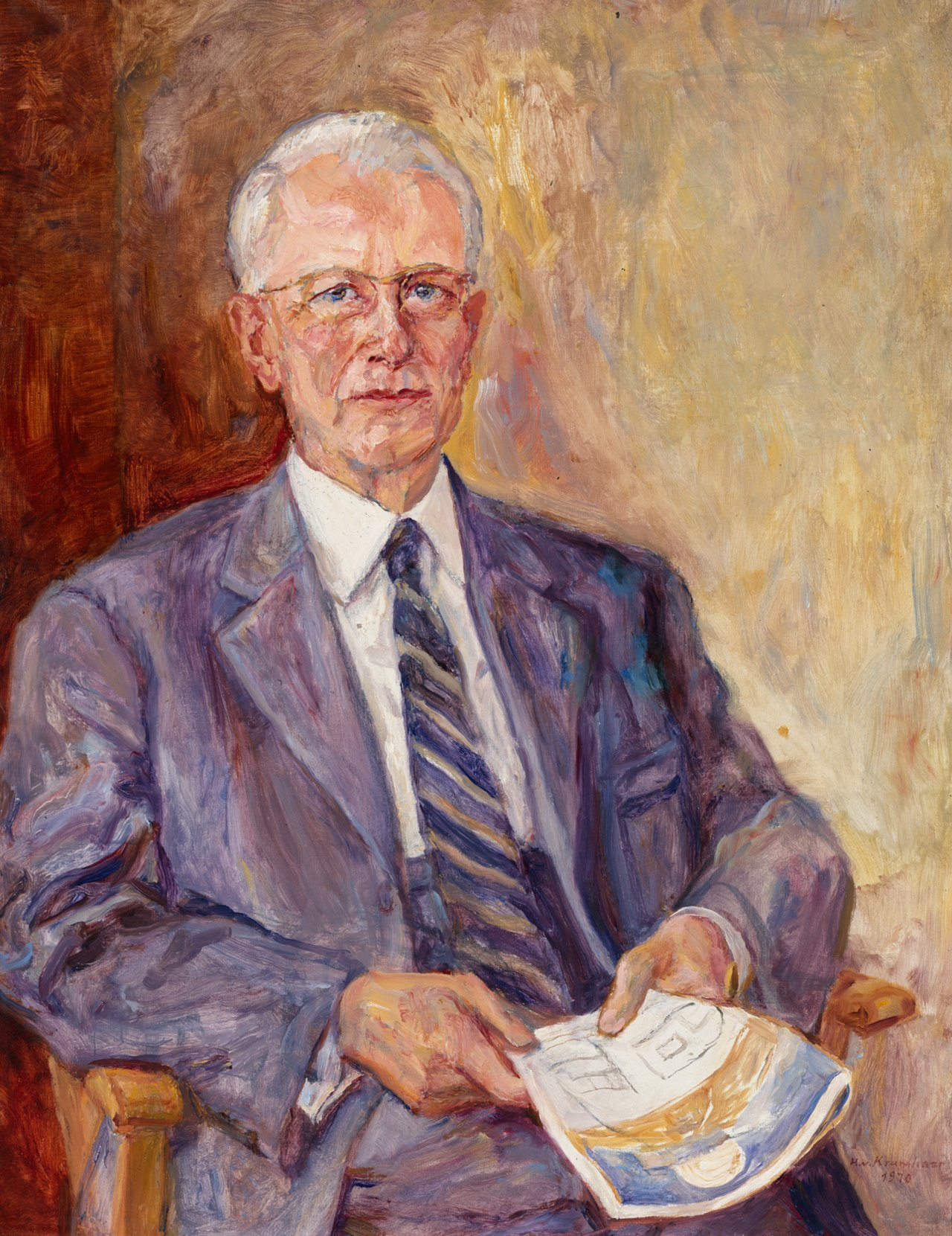 Painting of Prof. Otto Heckmann, ESO Director General between 1962-1969. This was the beginning of a tradition to showcase portraits of former Directors General at ESO.